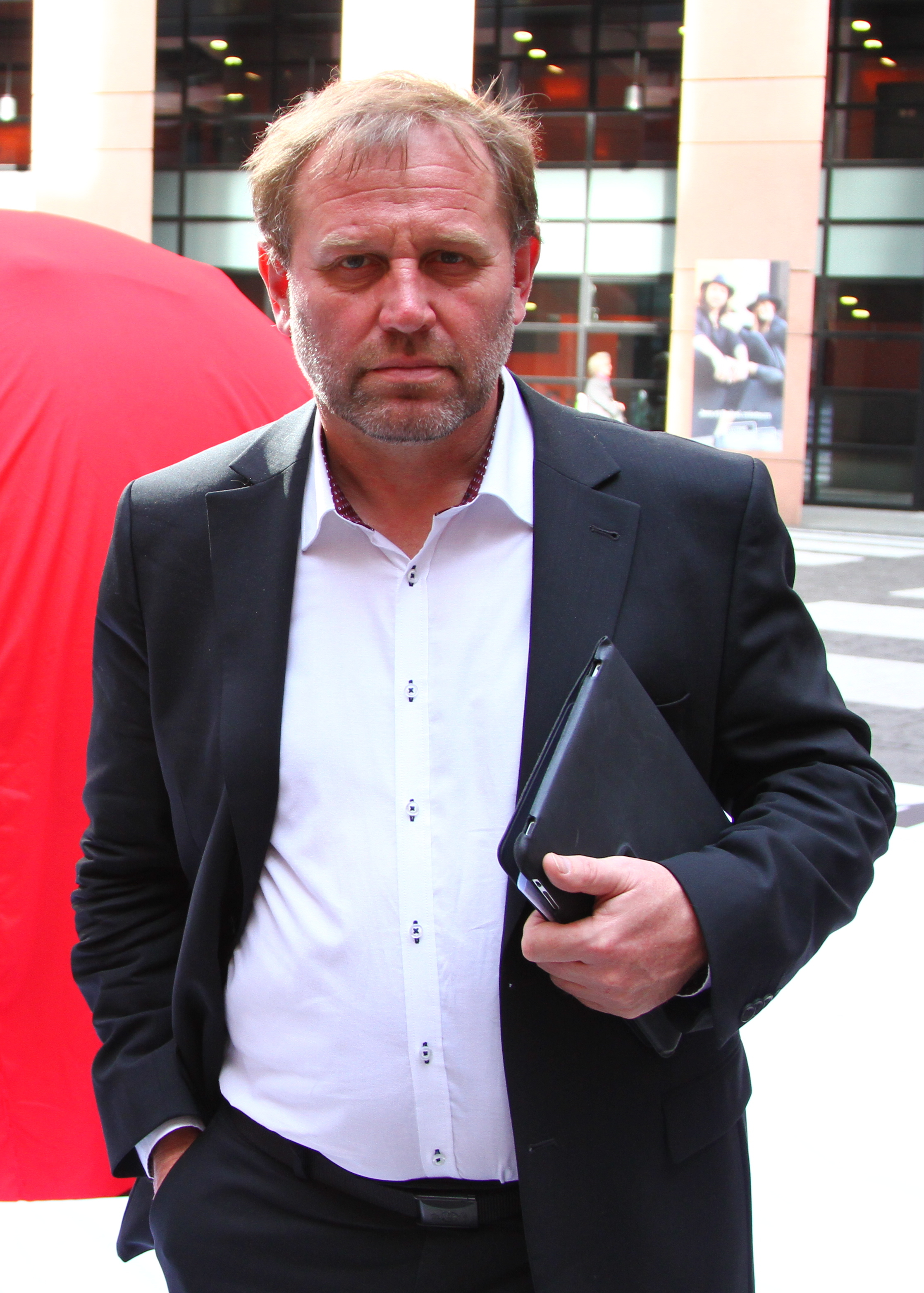 Remember Fukushima On the third anniversary of the tragic events following the tsunami and the resulting nuclear disaster in Fukushima, Greens/EFA MEPs carried out a symbolic action to remember the disaster and its victims at the European Parliament in Strasbourg. This followed a press conference with Naoto Matsumura, the last man living in the forbidden zone of Fukushima, hosted by green MEPs Sandrine Bélier and Michele Rivasi. Find out more at Fukushima #Nuclear